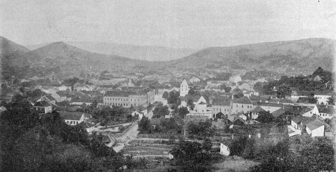 Nova iskra